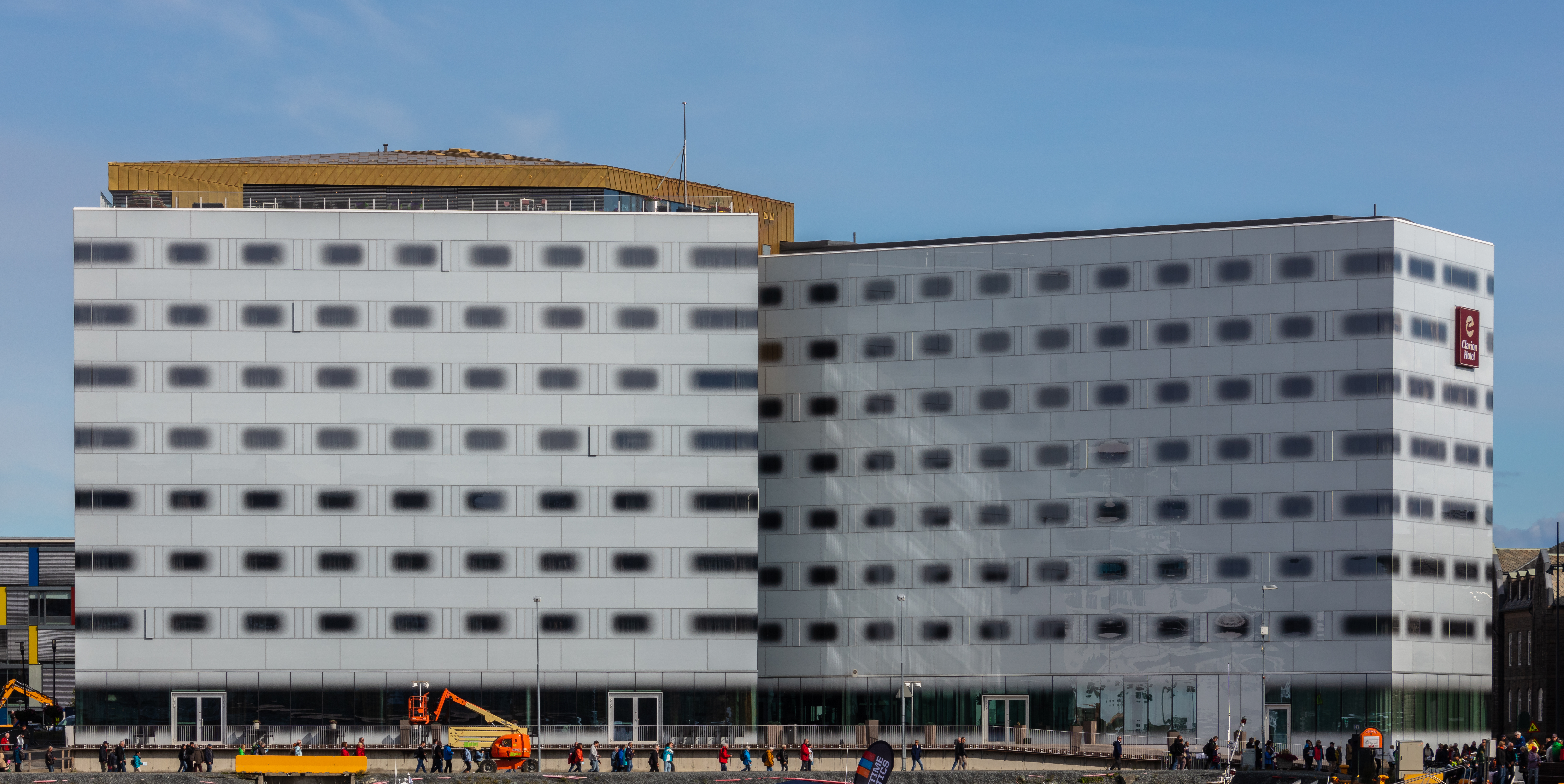 Building at Brattørkaia 9, Trondheim, Norway